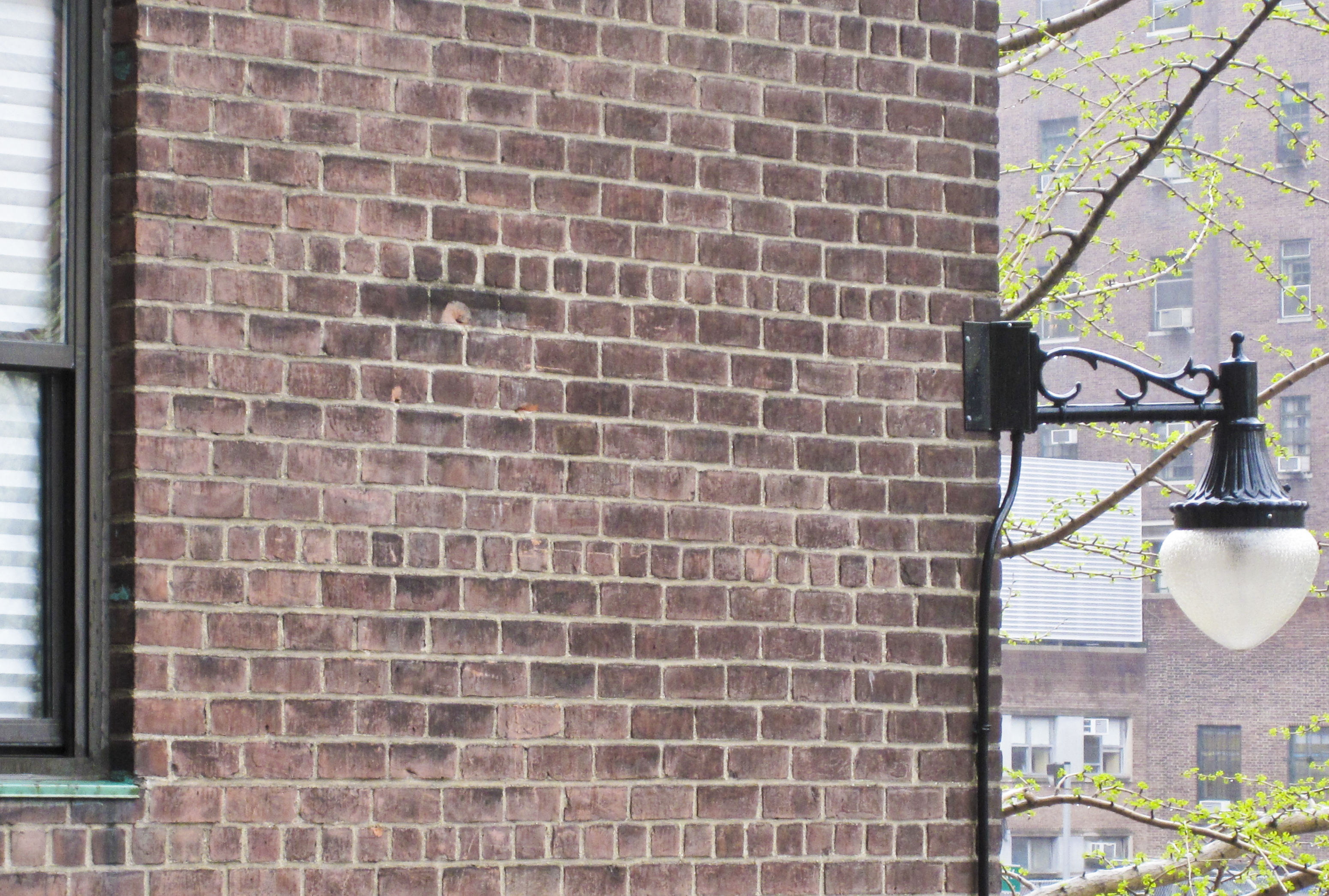 American bond. 3-5 courses of stretchers half brick overlap between two header courses. 5th Ave, Harlem, New York, USA